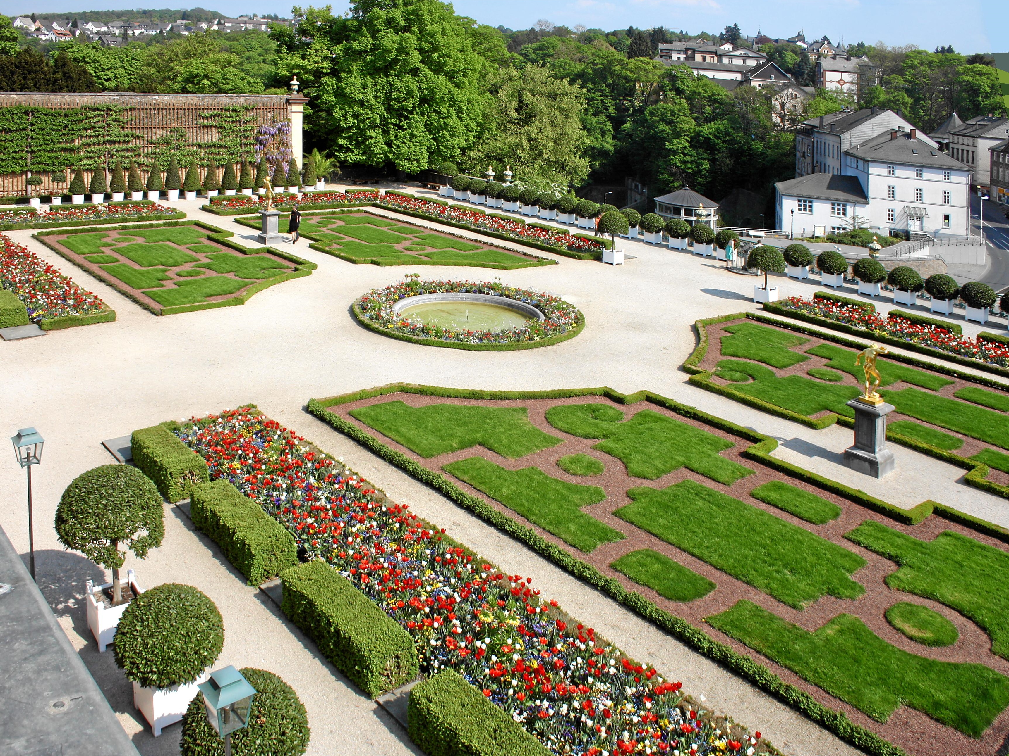 Castle garden, Weilburg, Germany.